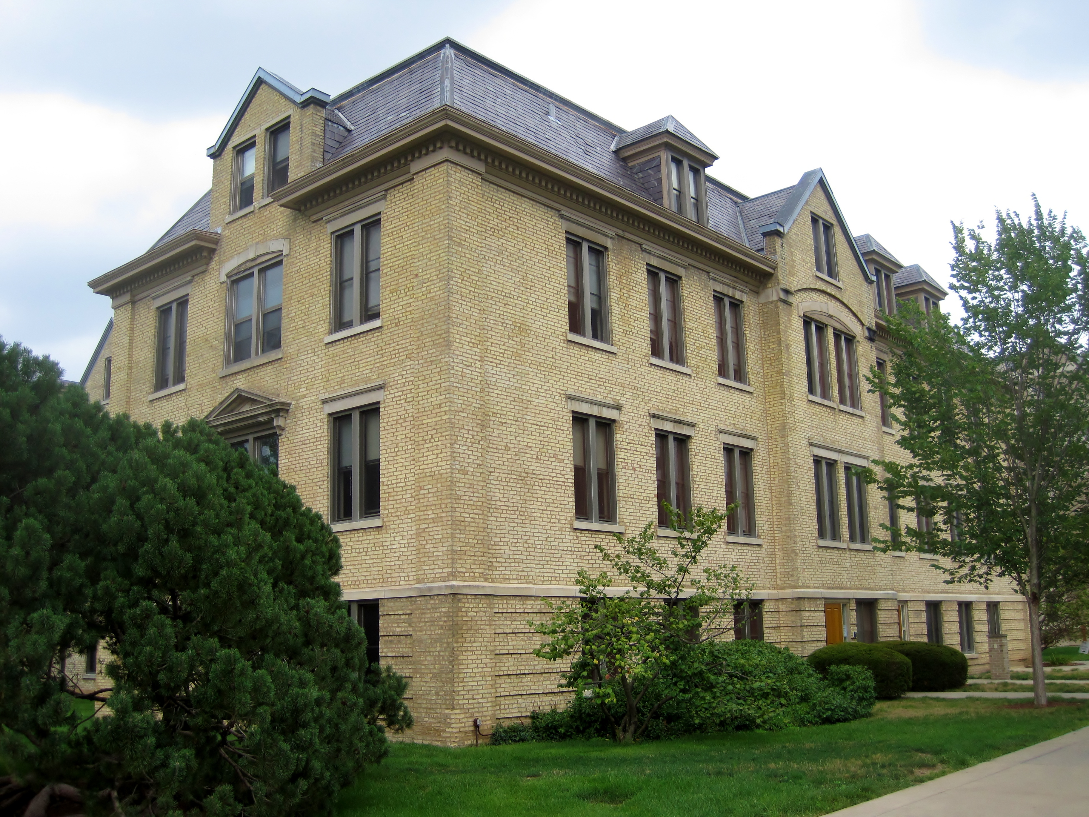 Badin Hall at the University of Notre Dame Campus Main and South Quadrangles in South Bend, IN (1897). It wsa built as a residence hall and as classrooms for the Manual Labor School.